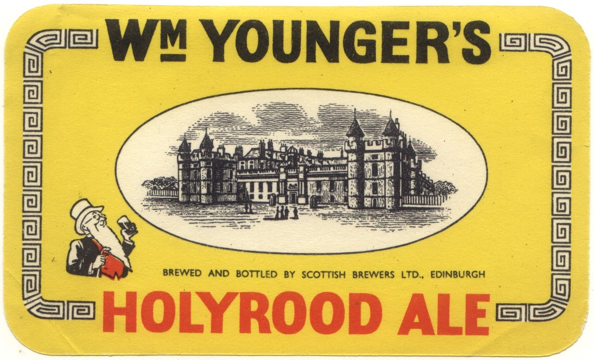 Younger's Holyrood Ale label